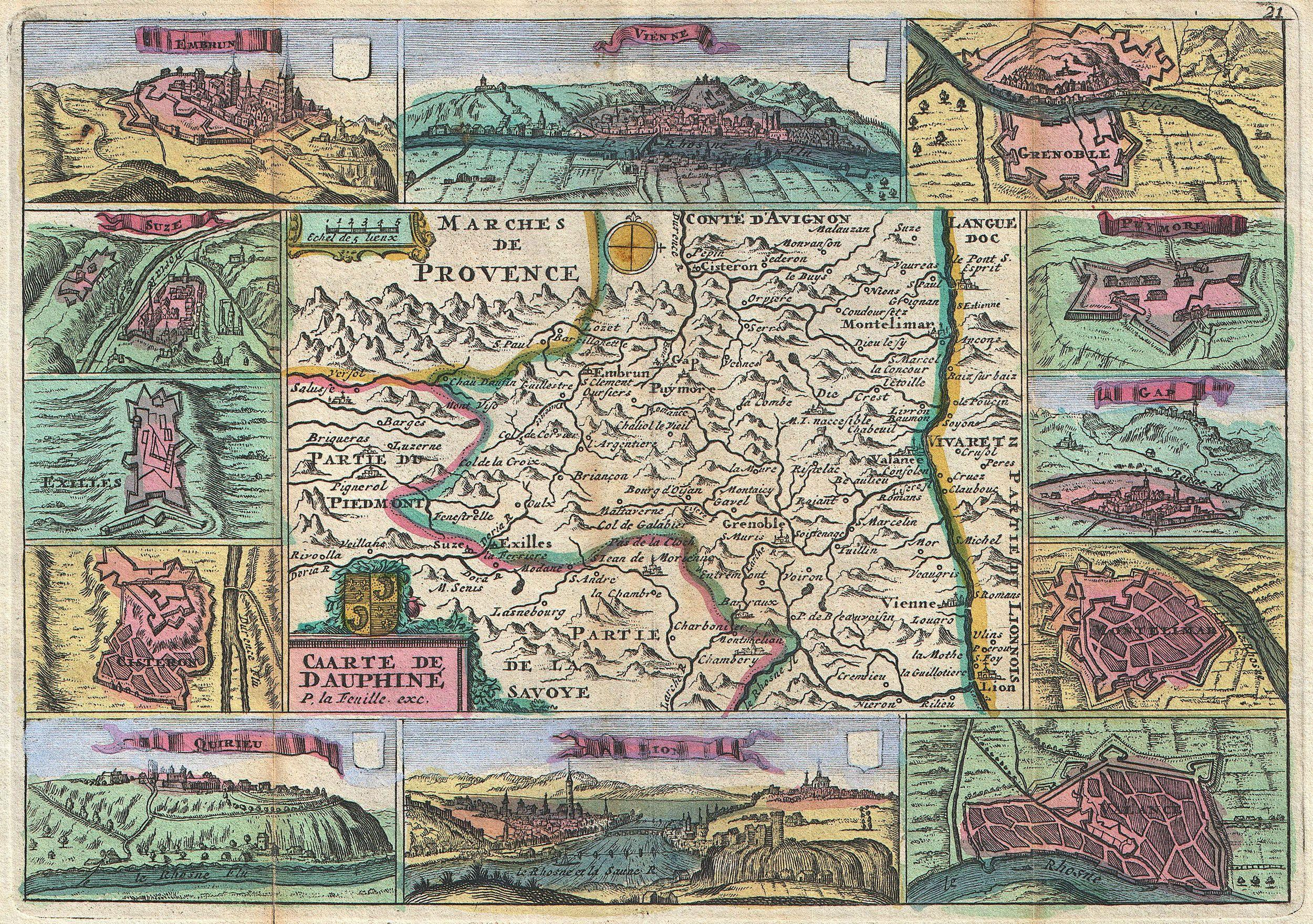 A map of Dauphiné, France, first drawn by Daniel de la Feuille in 1706. This province in southeastern France roughly corresponds with the modern day departments of Isère, Drôme, and Hautes-Alpes. Surrounded by twelve views of important villages and fortresses in this region: from top right in a clockwise fashion these include Embrun, Vienne, Grenoble, Puymore, Gap, Montelimar, Valance, Lion, Quirieu, Cisteron, Exilles and Suze. This is Paul de la Feuille’s 1747 reissue of his father Daniel’s 1706 map. Prepared for issue as plate no. 26 in J. Ratelband’s 1747 Geographisch-Toneel. South is at the top.